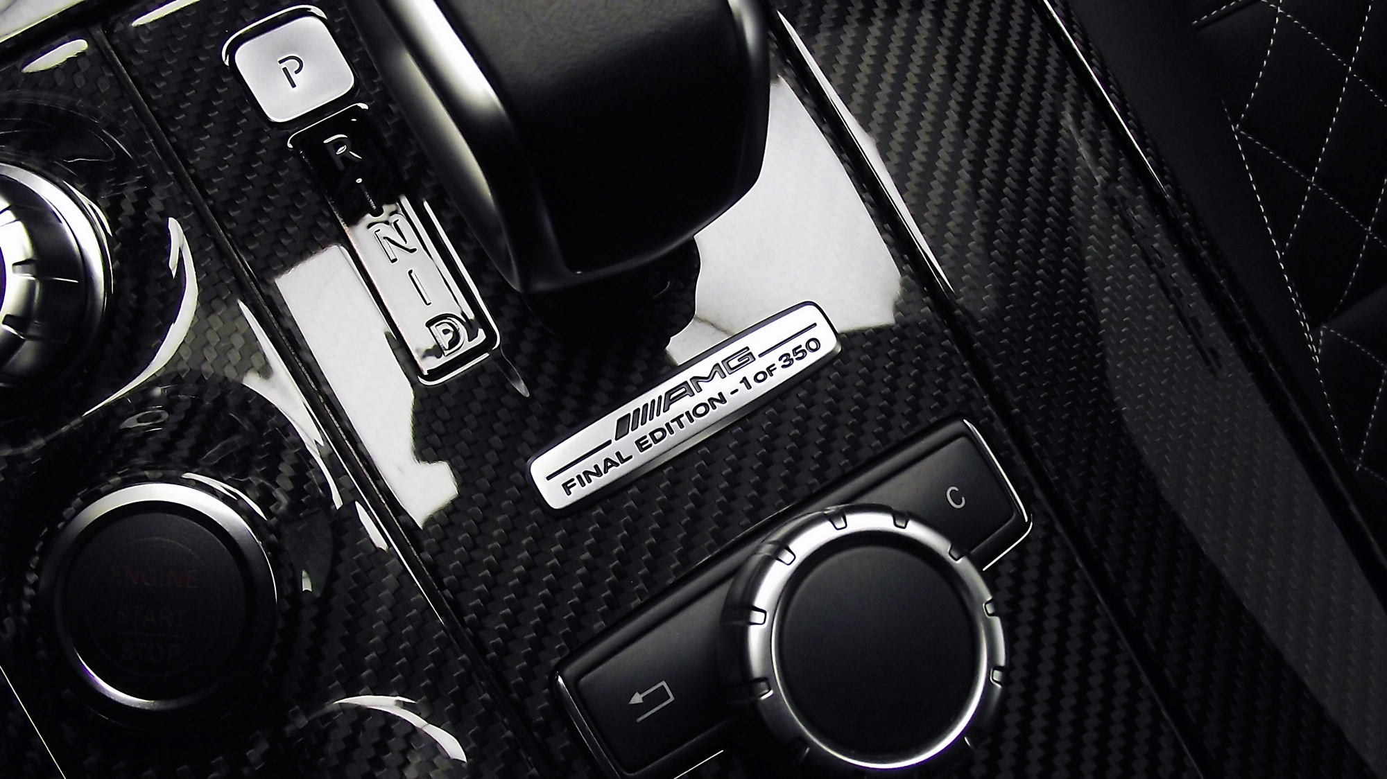 Mercedes-Benz SLS AMG GT Roadster Final Edition Cockpit shifting gate badge 1 of 350